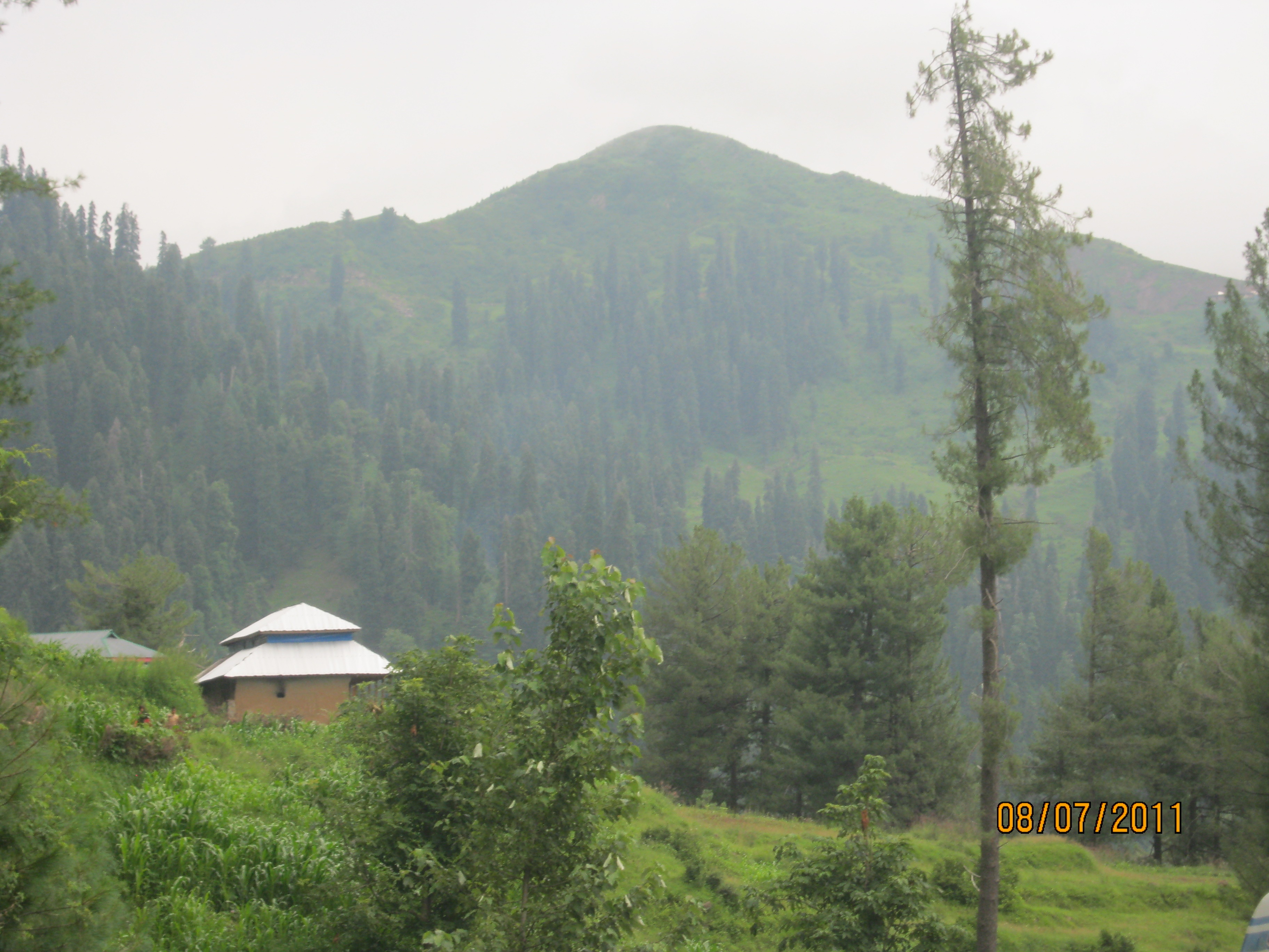 Garhi dupata, Bagh, Kashmir. 4